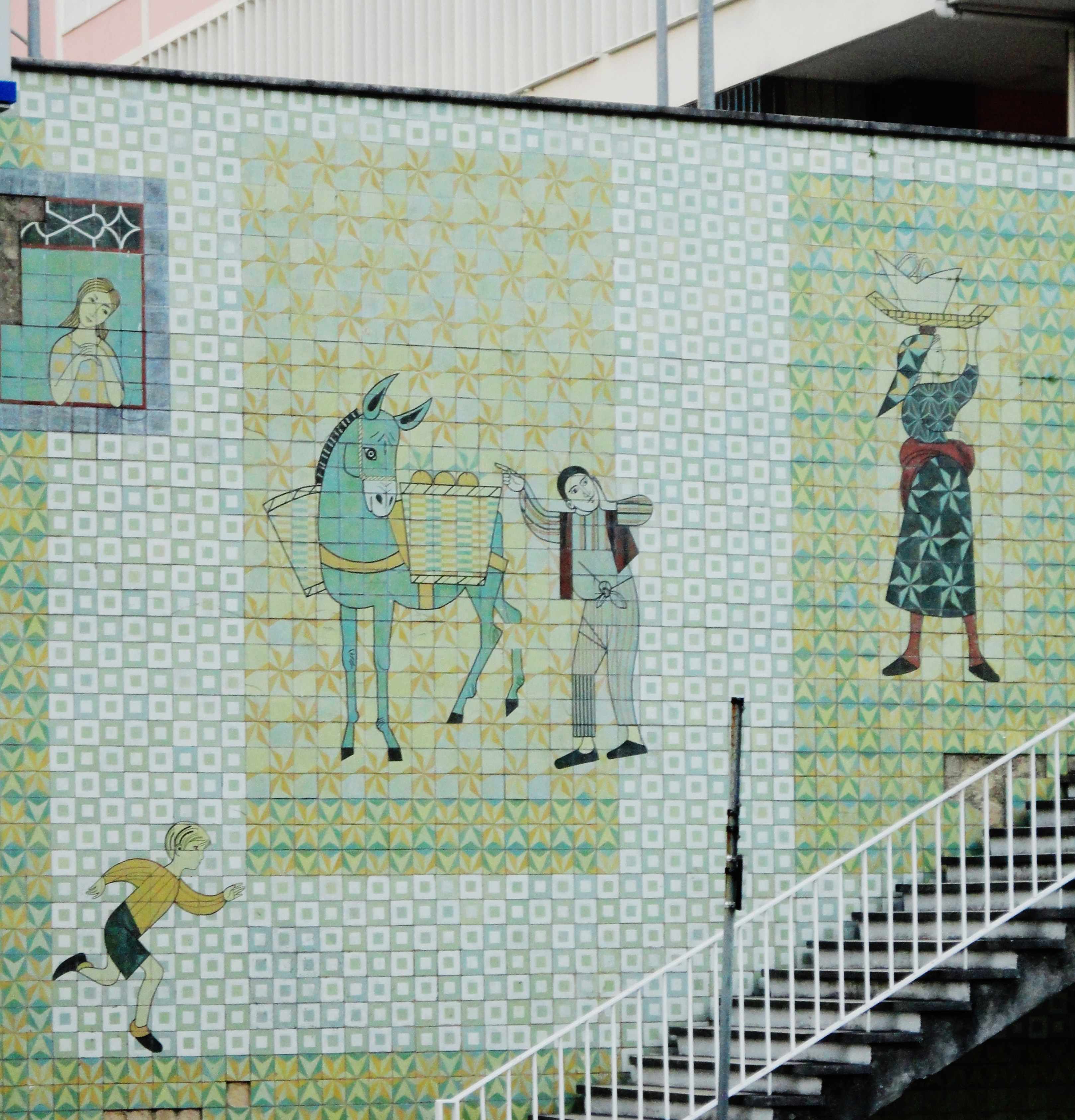 Júlio Pomar, azulejos (ceramic tiles) panel, c. 1958, Av. Infante Santo, Lisbon